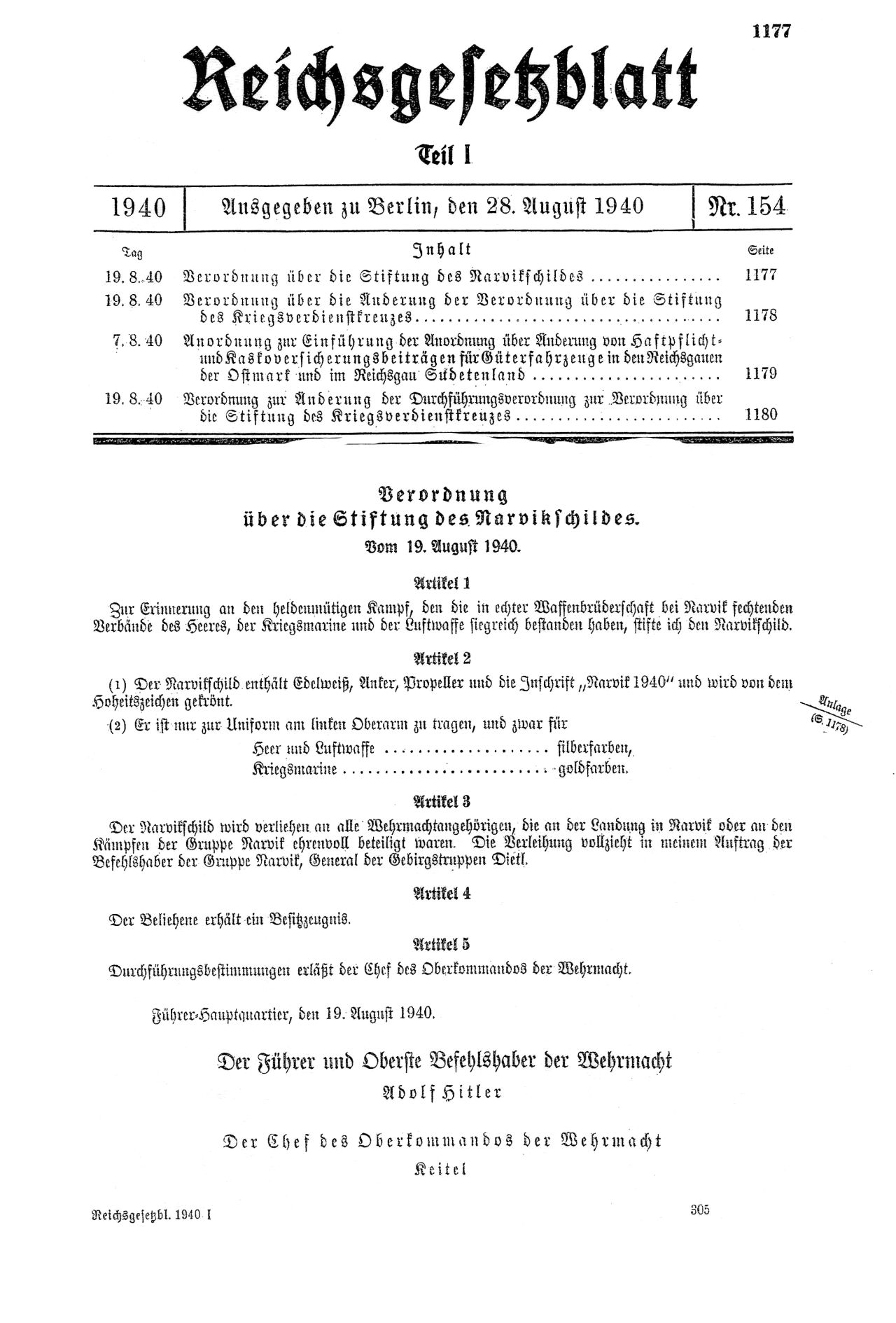 Decree issuing the Narvik Shield